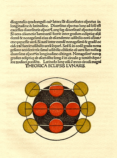 Schema zur Mondfinsternis. Holzschnitt, in drei Farben gedruckt, aus: Johannes de Sacro Bosco, Sphaericum opusculum, gedruckt von Erhard Ratdolt, Venedig 1485 Diagram, showing eclipse of the moon; woodcut, printed in three colours, from Sphaericum opusculum by Johannes de Sacro Bosco, printed by Erhard Ratdolt, Venice 1485